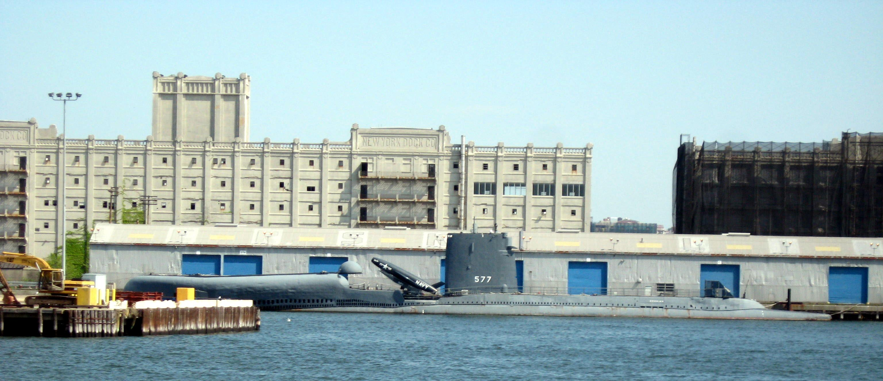 Looking east into Atlantic Basin at USS Growler from ferry in Buttermilk Channel on a mostly sunny afternoon.